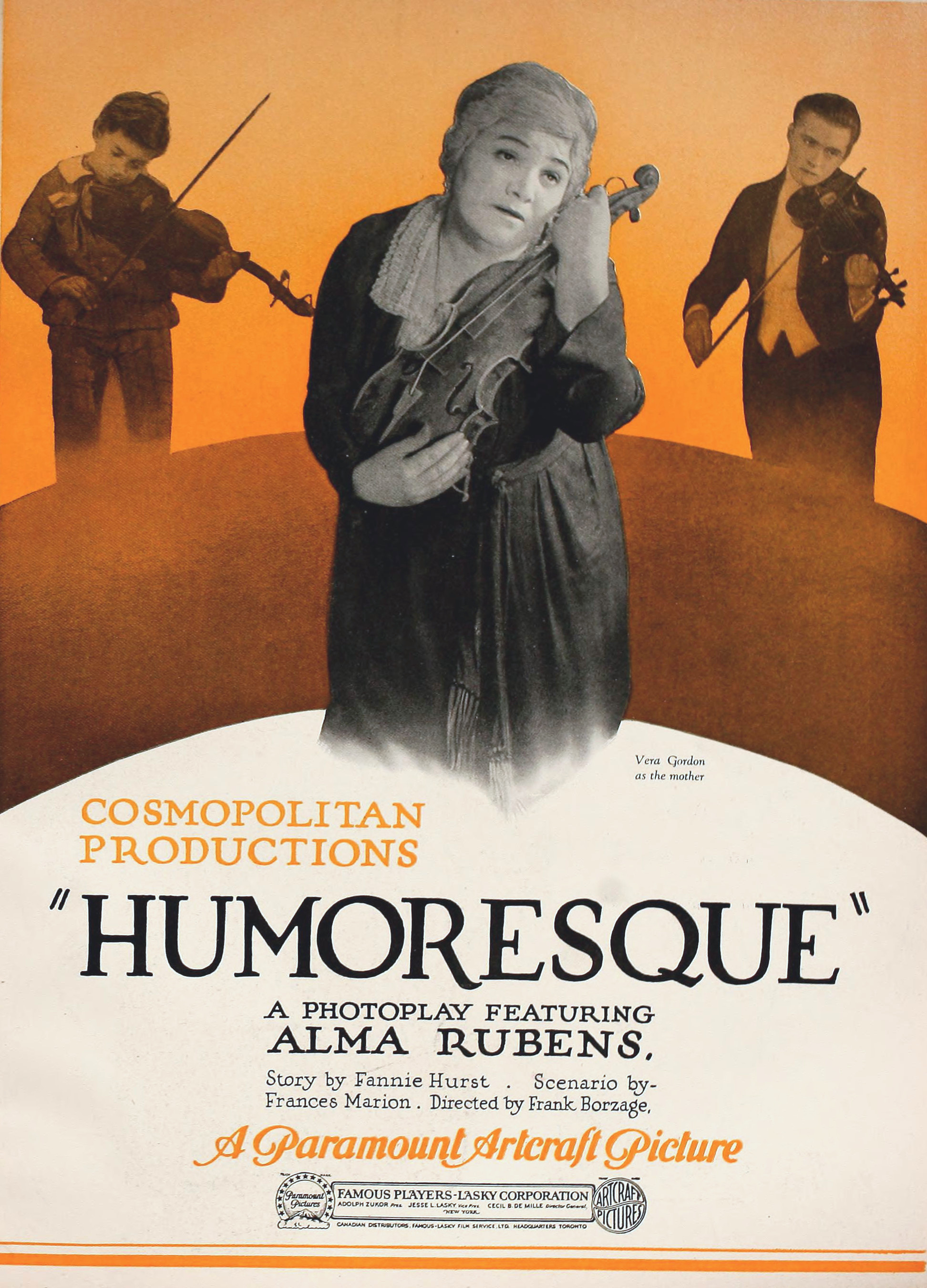 Advertisement for the American drama film Humoresque (1920) with Vera Gordon, on page 4077 of the May 15, 1920 Motion Picture News.